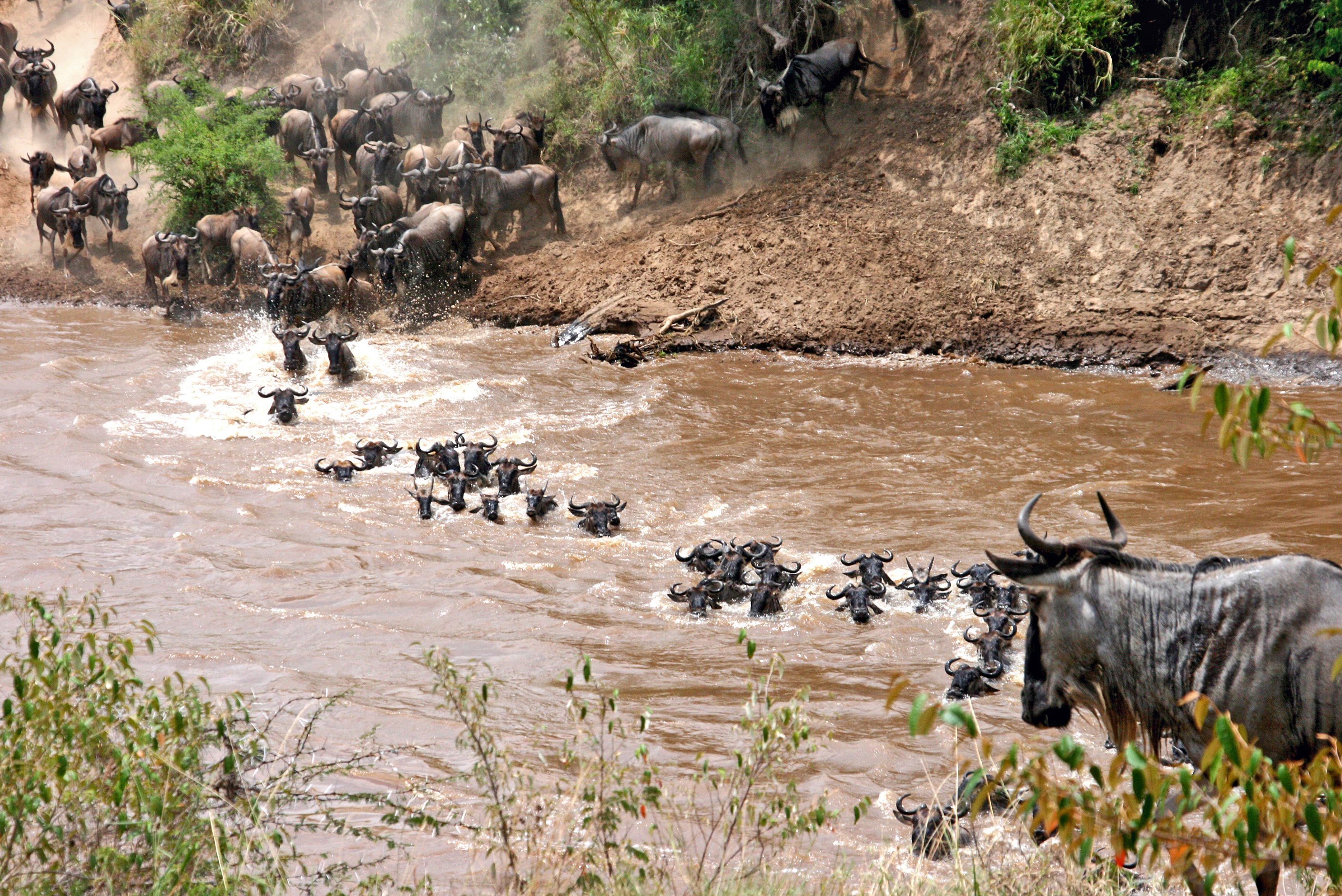 Wildebeest (Connochaetes taurinus) crossing Mara river.